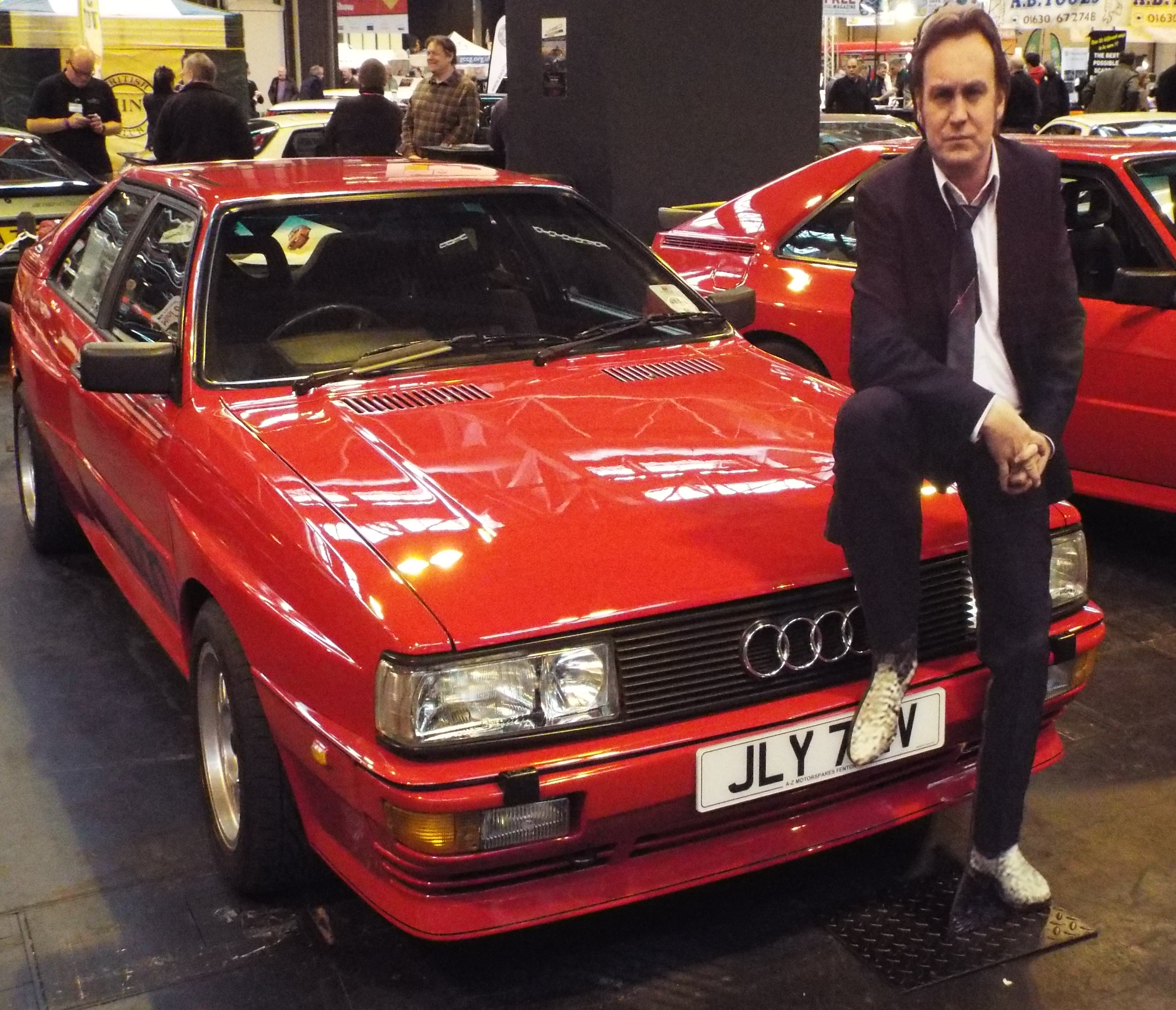 Gene Hunt to Alex Drake: Shall we go back to some proper policing? A bit of admin? I need to stamp your arse Drake: I beg your pardon? Gene Hunt: It's tradition when the woman joins the Met, skirt up, stamp your bum with the days date and down the pub. Gene Hunt to Alex Drake: Stop moaning. What’s up with you this morning! You haven’t got the decorators in again have we?